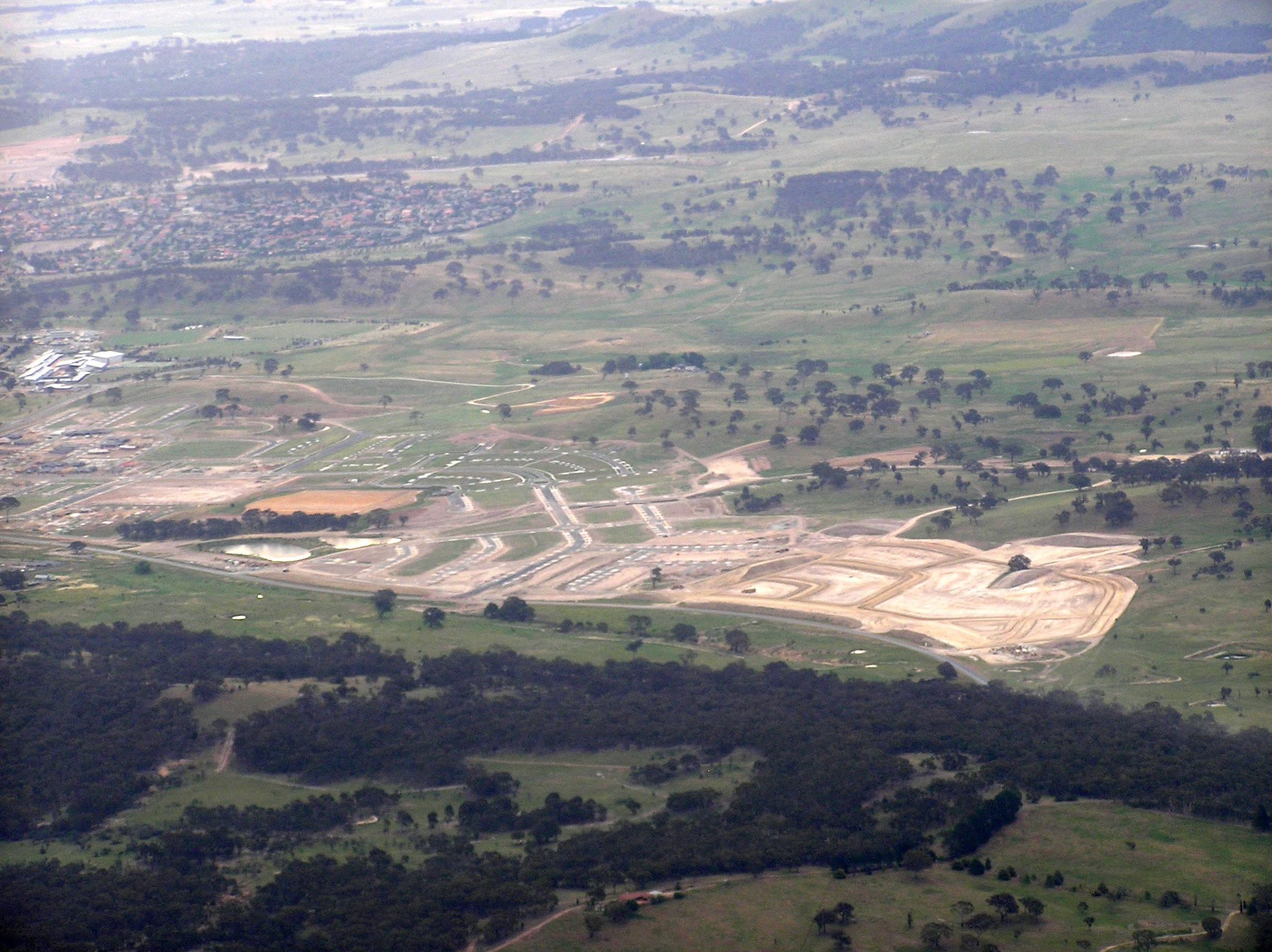 Forde Bonner and Jacka Australian Capital Territory view from east